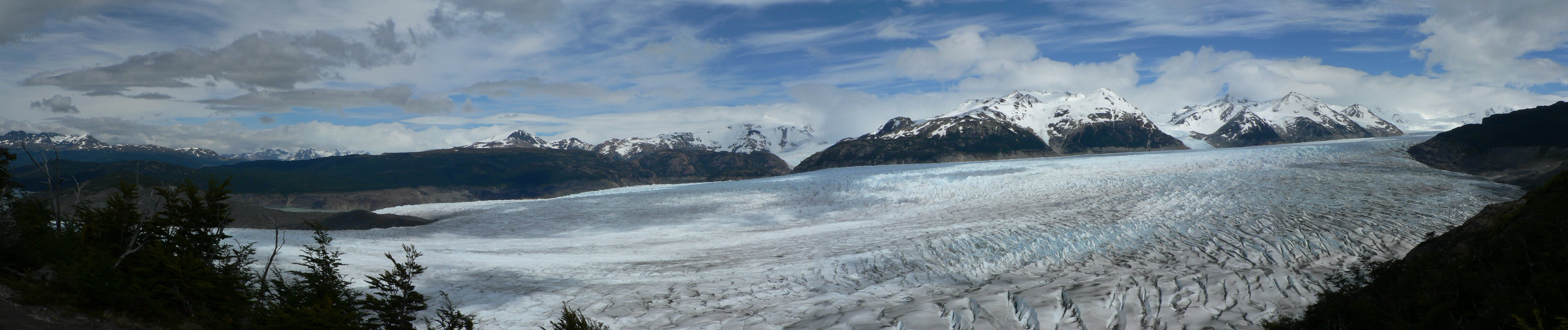 Grey Galciar